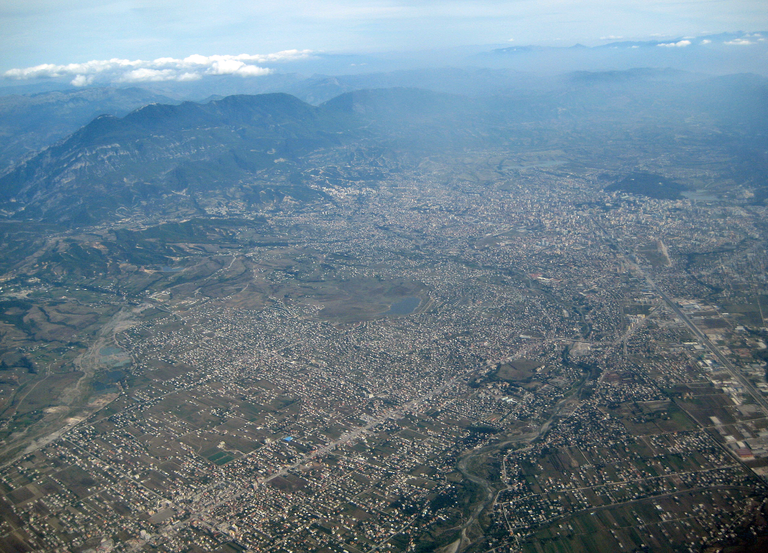 The Southern part of the Plain of Tirana (Albania). The mount Dajti at its Eastern end is in the upper left corner of the image. Tirana's high rise buildings and parks can be seen in the upper right corner. The motorway from Durrës in the West leading directly in Tirana's center is on the right hand side. From the lower left corner, the street from North Albania is heading to Tirana through the town of Kamza. Along this street, many new illegal settlements can be seen in the center of the picture. Between Kamza and Tirana, Tirana river makes its way to the Ocean (bottom center), as on the far left the River Zeza is to be recognized.